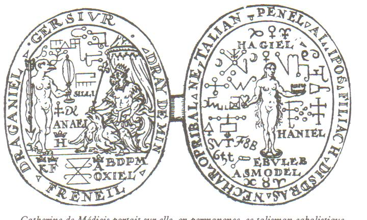 Talisman of Catherine de Medici